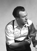 Portrait of Broadway photographer Murray Korman; self-portrait set up the shot with shutter delay; Korman posed himself and Ann Miller for the photo; Miller has been cropped out of the photo